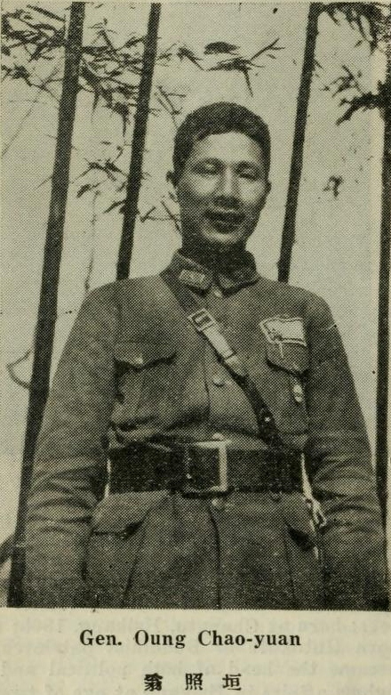 Weng Zhaoyuan (Oung Chao-yuan; Weng Chao-yüan) (1892 - 1972)